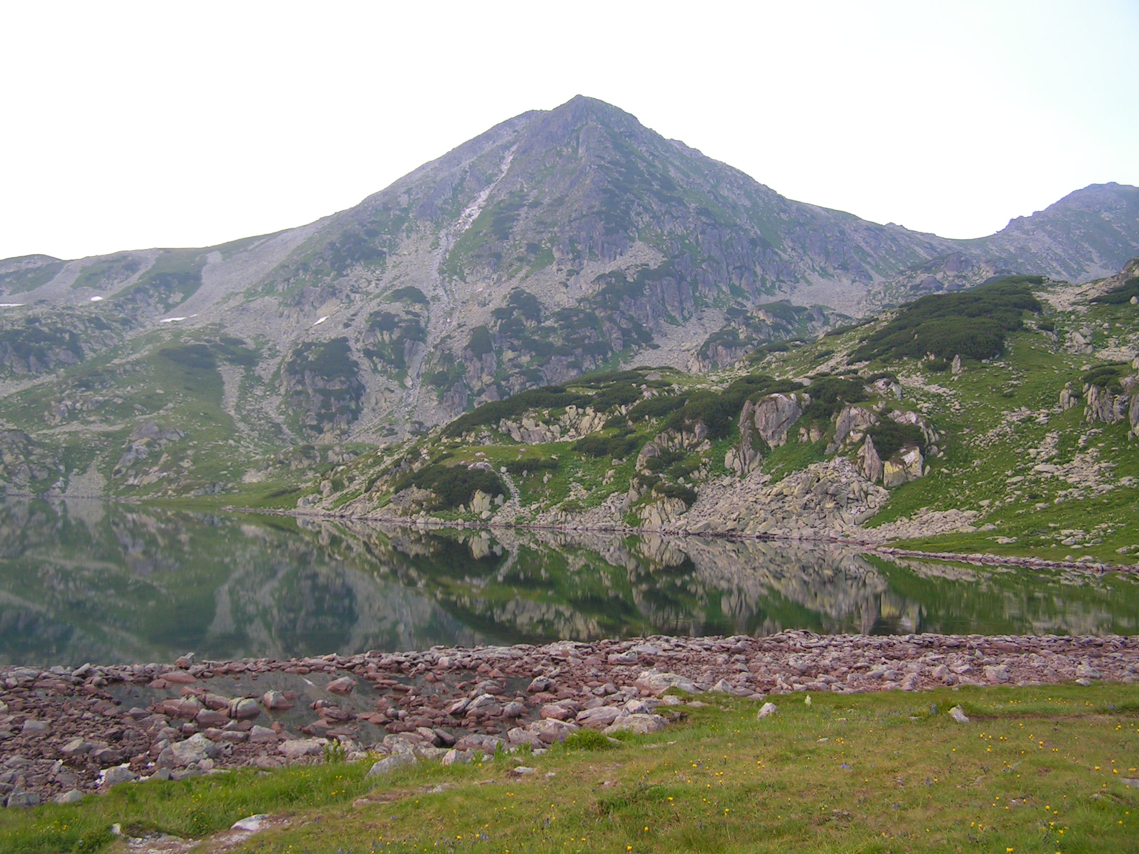 Retezat Mountains, near camp Bucura